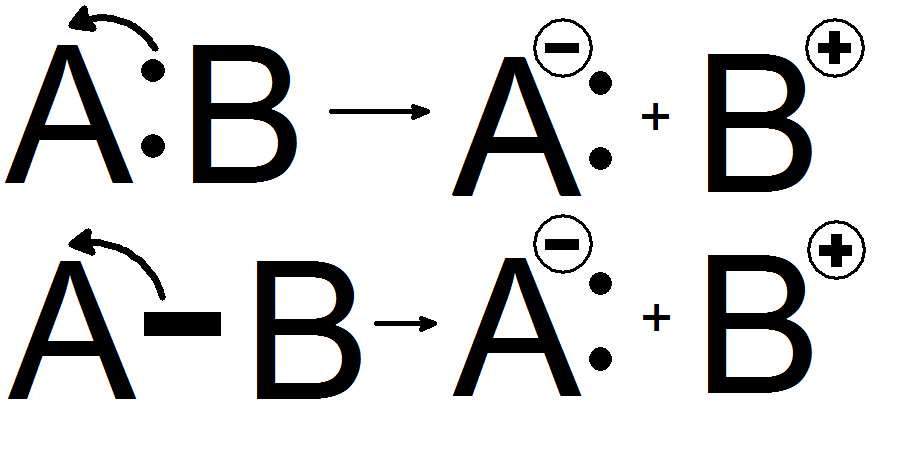 A heterolytic reaction showing Arrow pushing. Created with ACD/ChemSketch 11. Replaces File:Heterolytic.jpg.